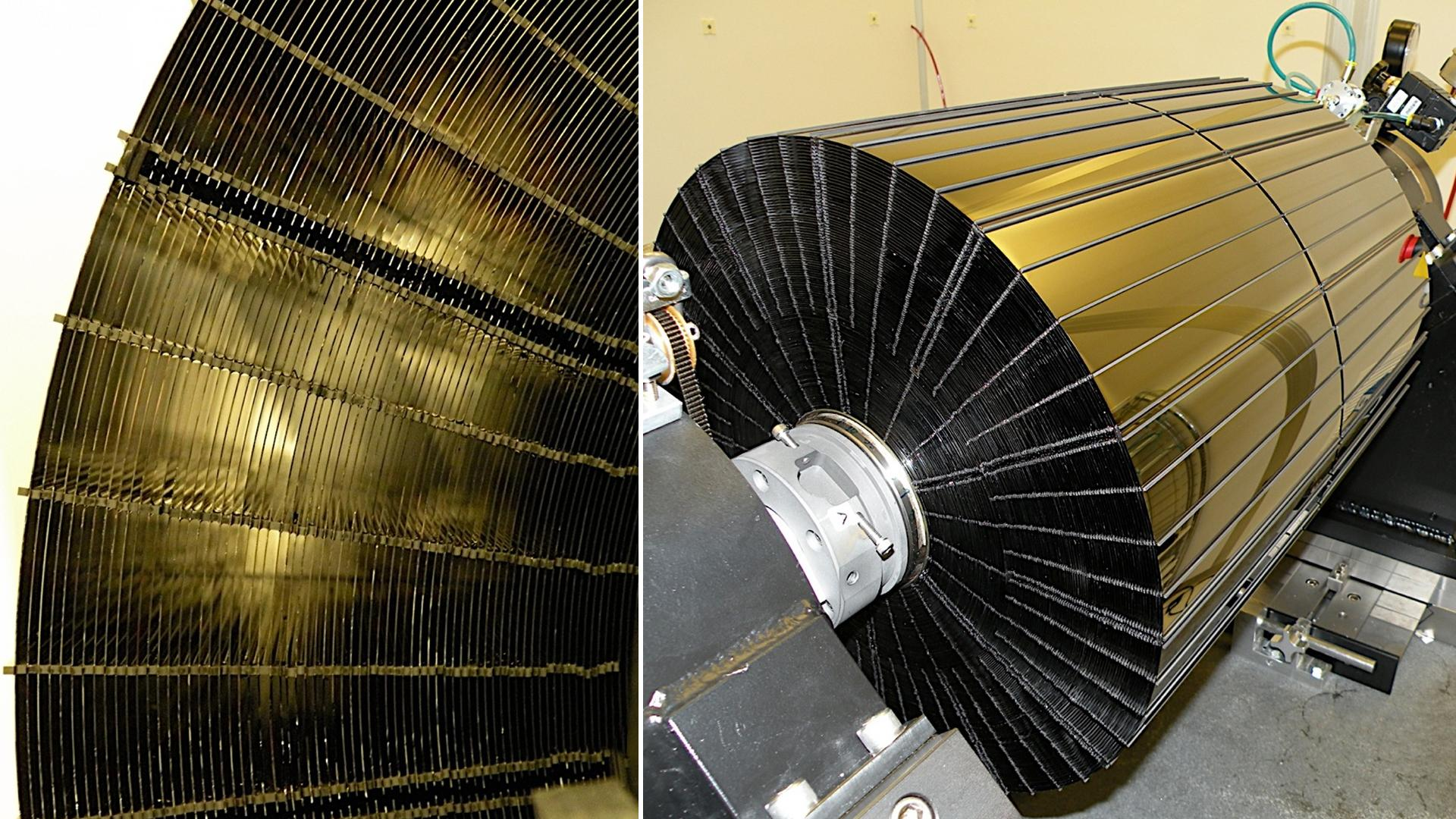 NASA's Nuclear Spectroscopic Telescope Array, or NuSTAR, has a complex set of mirrors, or optics, that will help it see high-energy X-ray light in greater detail than ever before. These images show different views of one of two optic units onboard NuSTAR, each consisting of 133 nested cylindrical mirror shells as thin as a fingernail. The mirrors are arranged in this way in order to focus as much X-ray light as possible. X-rays don't behave like visible light. Instead of easily bouncing off surfaces, they tend to be absorbed. However, if an incoming X-ray grazes a surface at a very small, glancing angle, it will be reflected. By nesting mirrors of different sizes and angles, more X-rays can be reflected and focused onto the same spot.